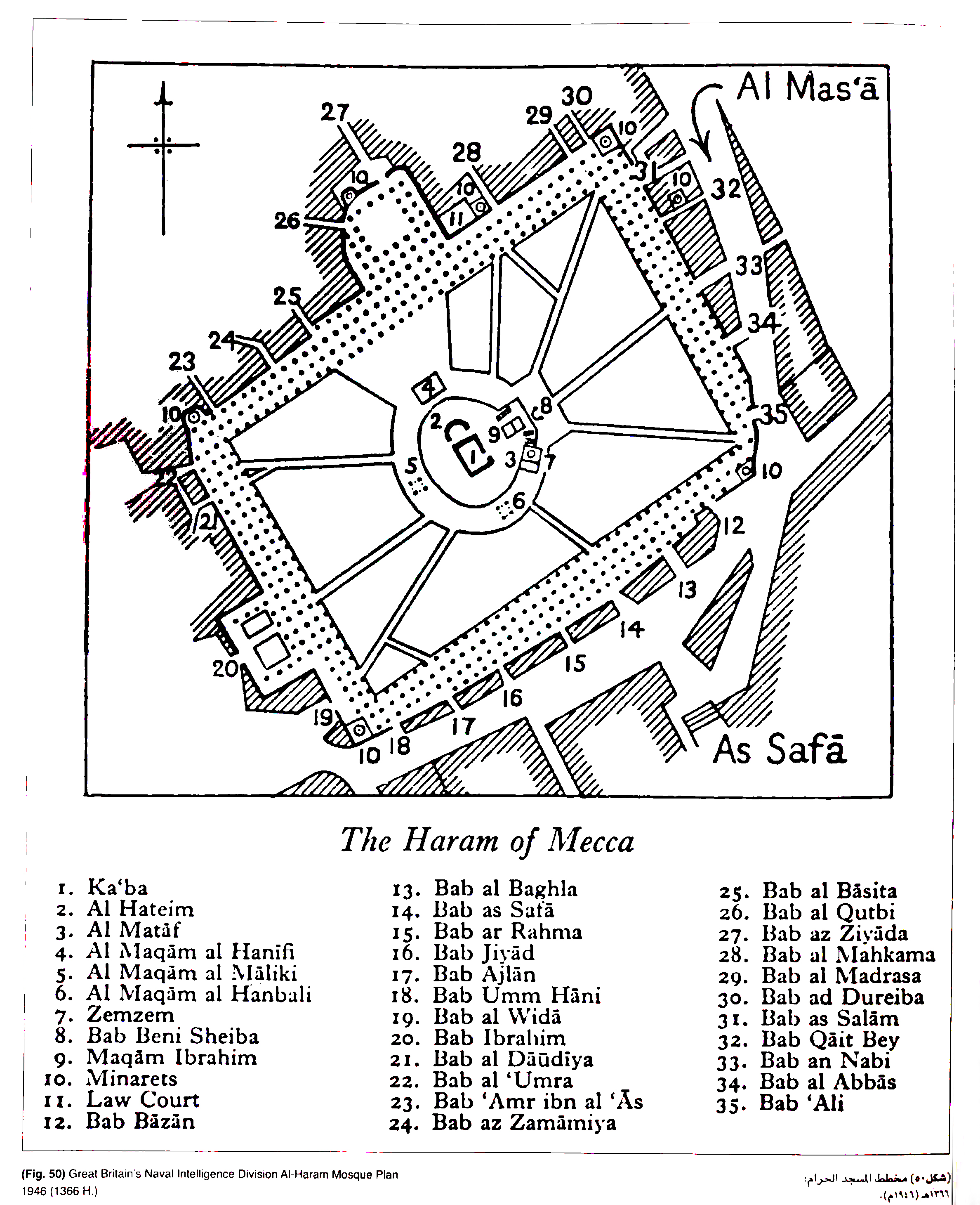 Great Britain's Naval Intelligence Division Al-Haram Mosque Plan 1946 (1366 H.).